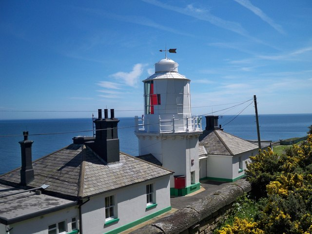 South Whitby Lighthouse